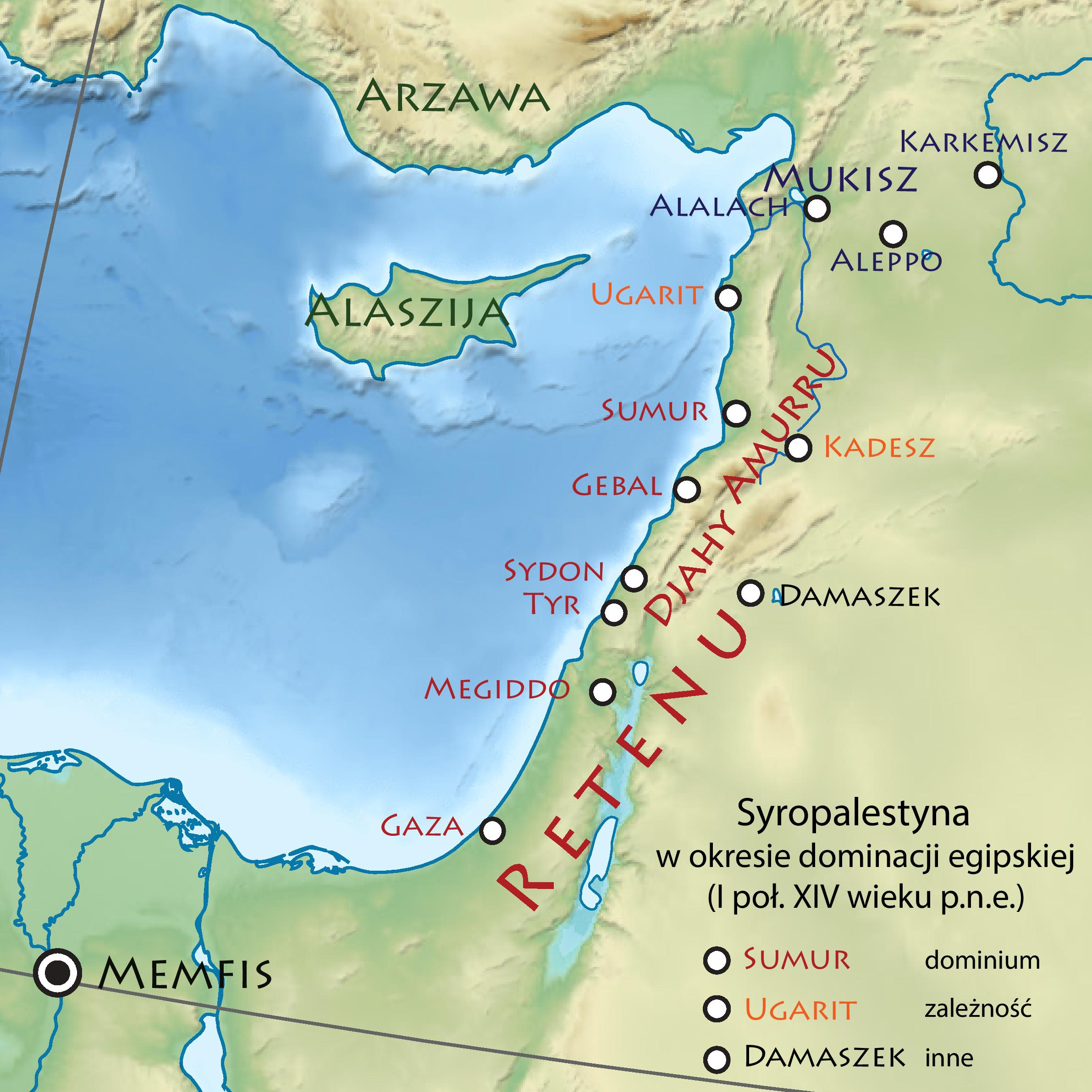 Levant during the domination of Egypt 14th century B.C.